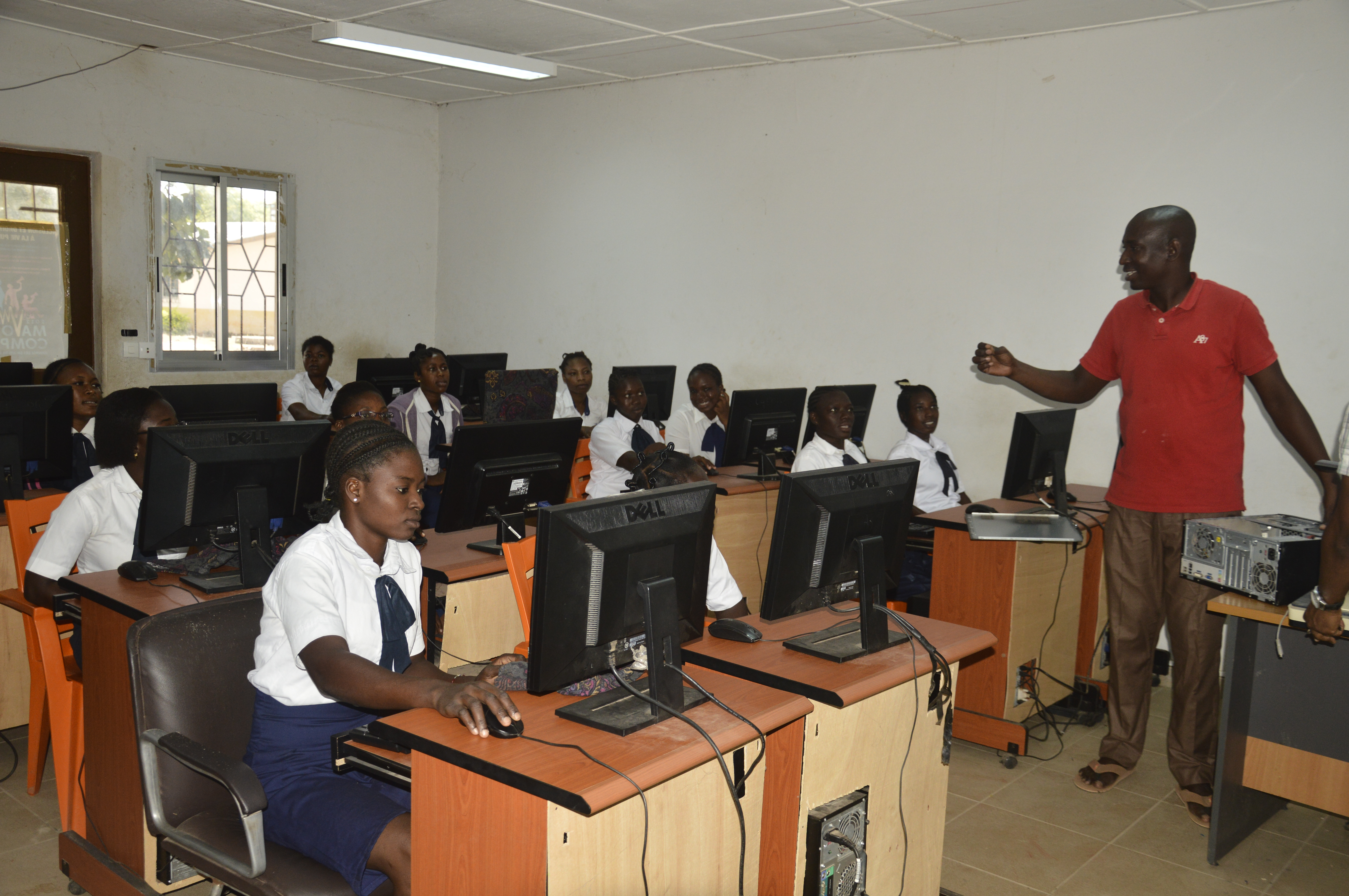 Enseignant d’informatique en situation de démonstration des composants de l’unité centrale d’un ordinateur, avec des élèves stagiaires en secrétariat bureautique au Lycée professionnel de Ferké, dans le Nord de la Côte d'Ivoire. This is an image of "African people at work" from Ivory Coast